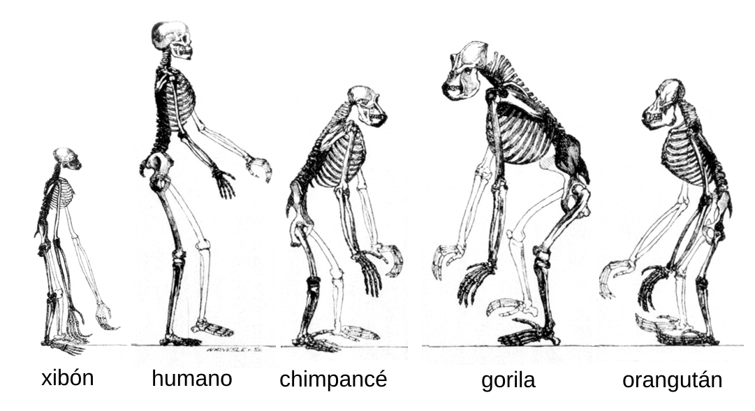 ape skeletons